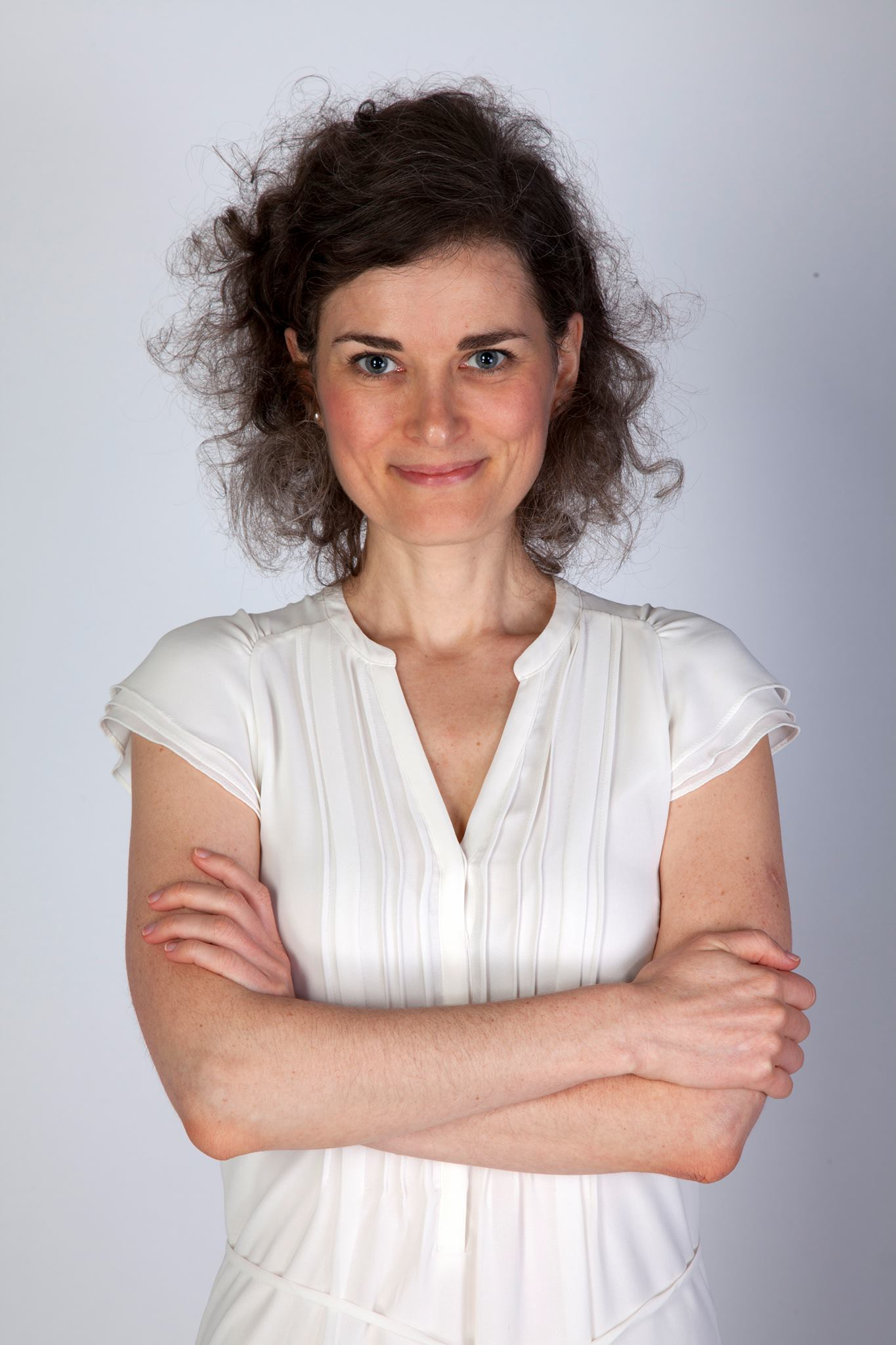 Portrait of author Ksenia Anske